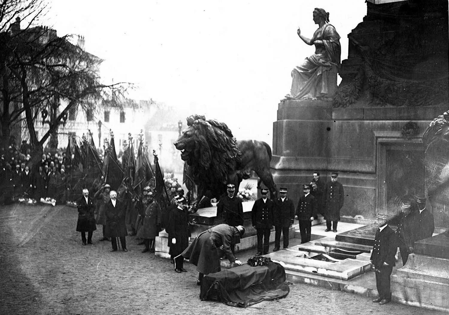 King Albert attends unknown soldier ceremony